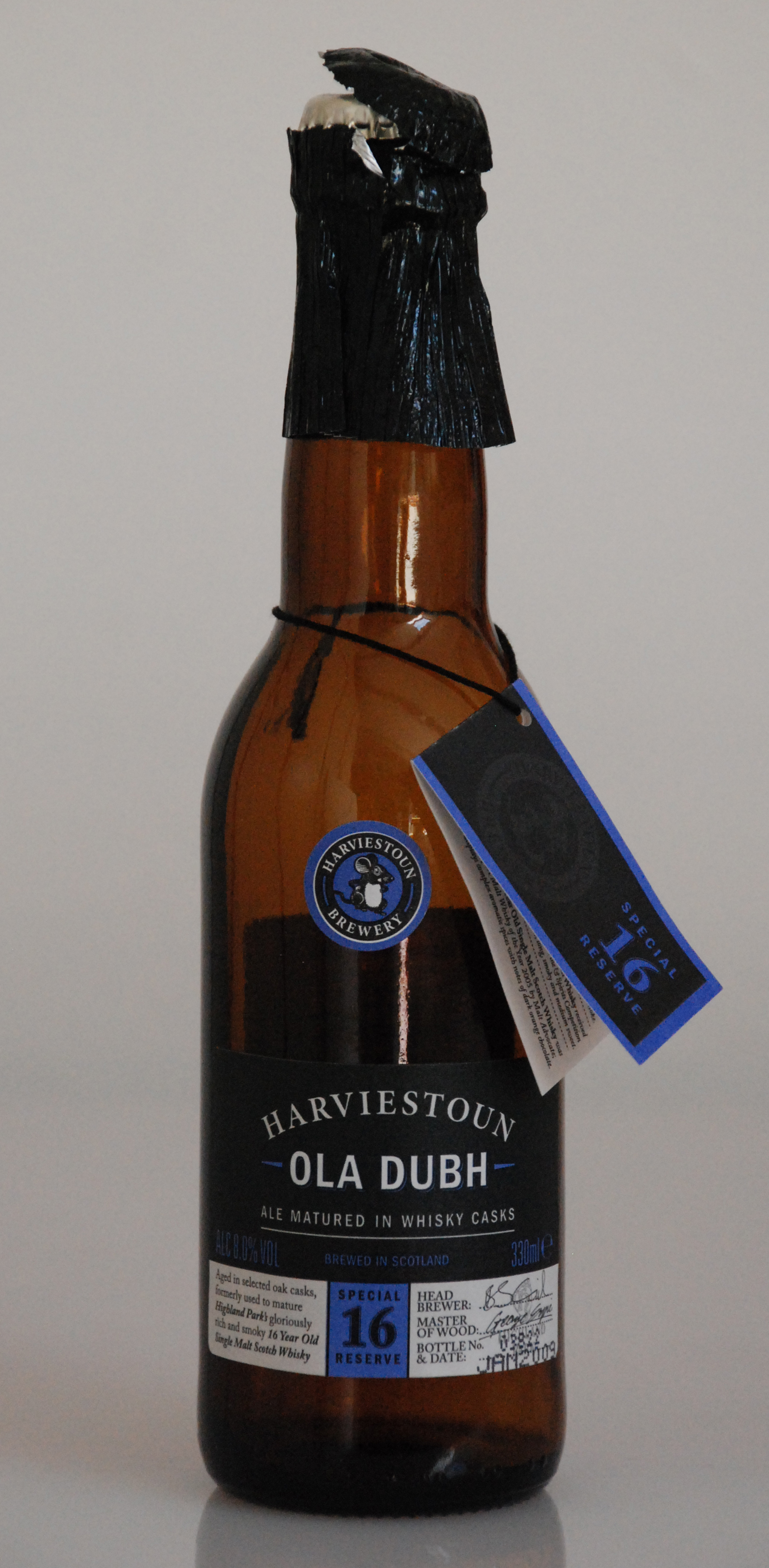 Empty 33cl bottle of Ola Dubh special 16 reserve beer.